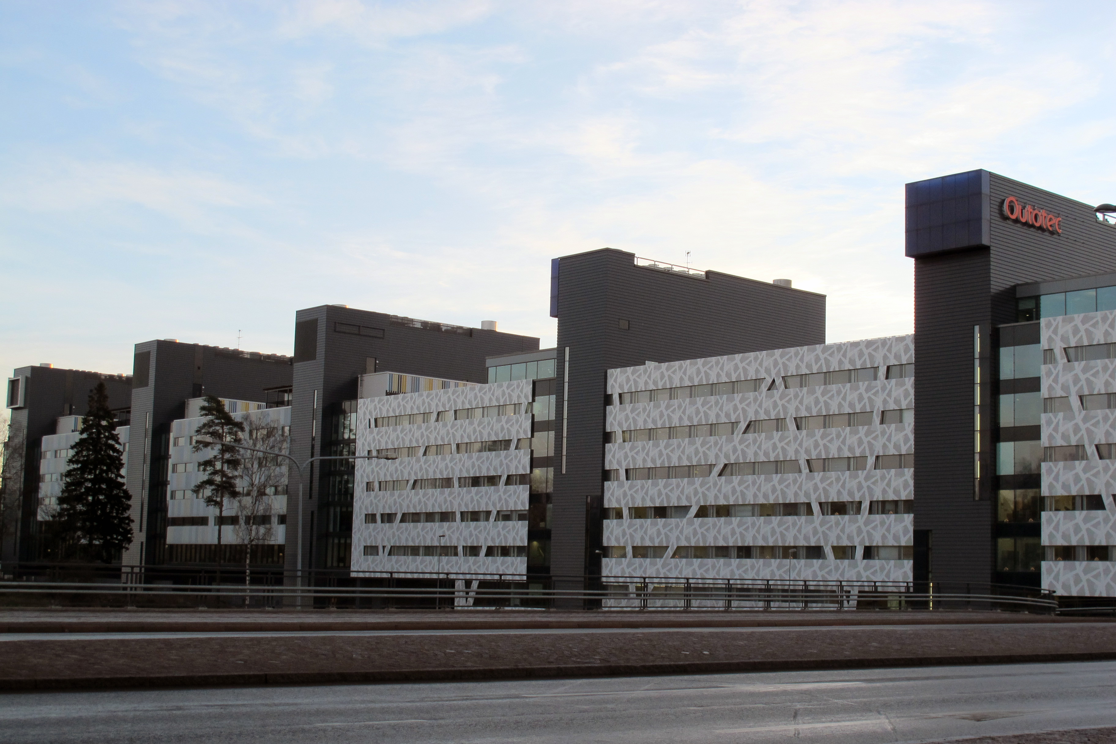 Outotec Oyj is headquartered in Espoo in Rauhalanpuisto 9